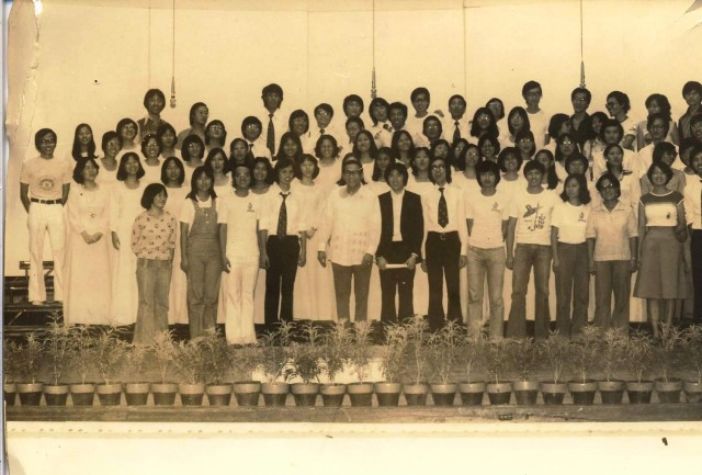 CU Chorus in Philippines